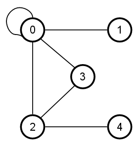 An example of a simple graph.